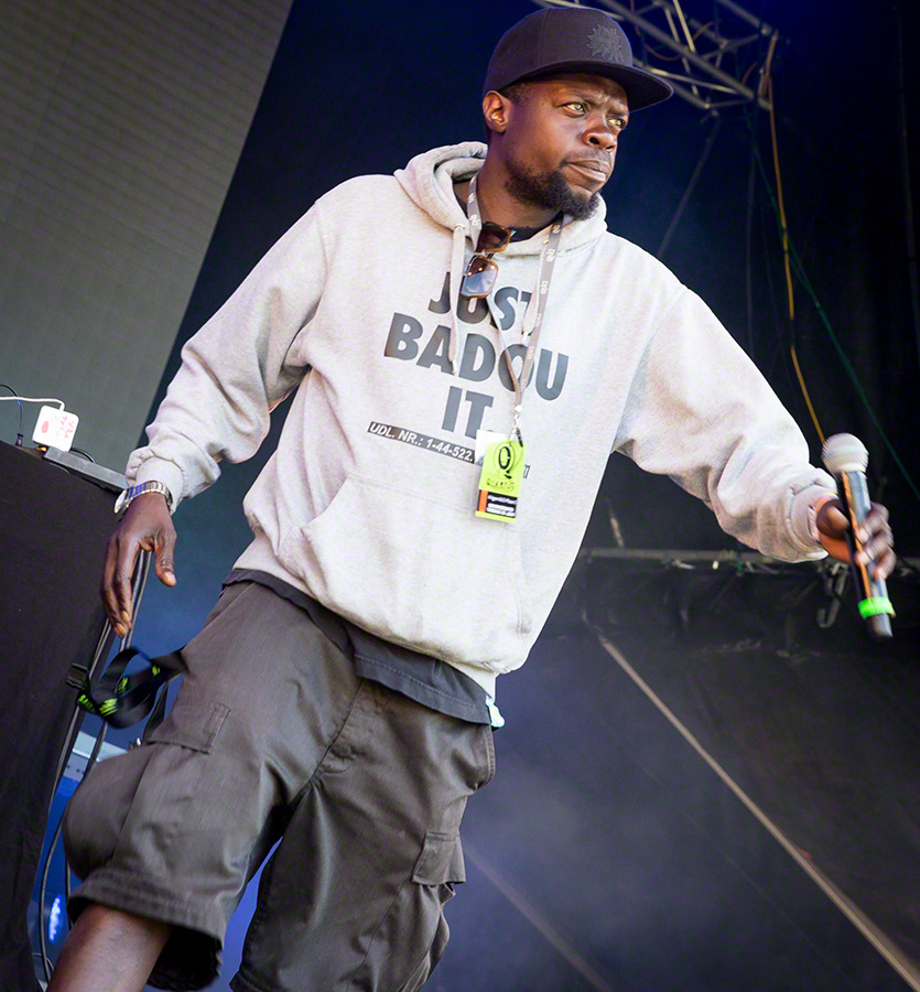 Al Agami & DJ Phase 5 performs at Quart Festival in Kristiansand on 28. June 2016.